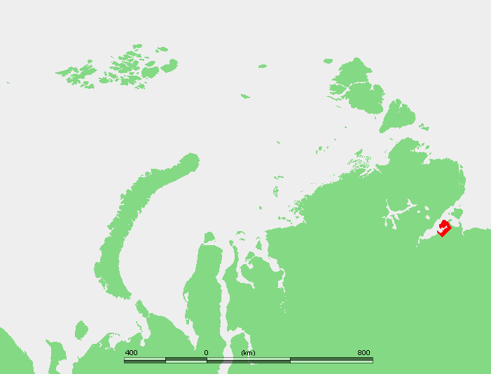 Location of Kozhevnikov Bay